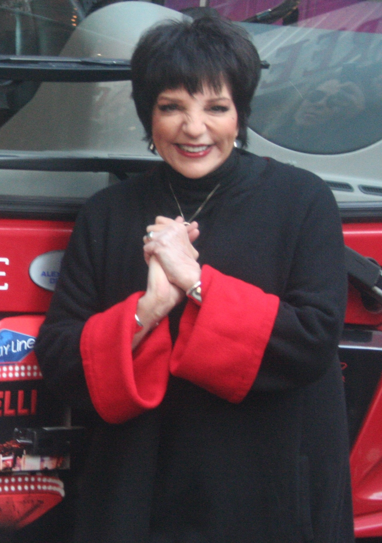 Liza_Minnelli honored in Gray Line New York’s "Ride of Fame" in March 2011.